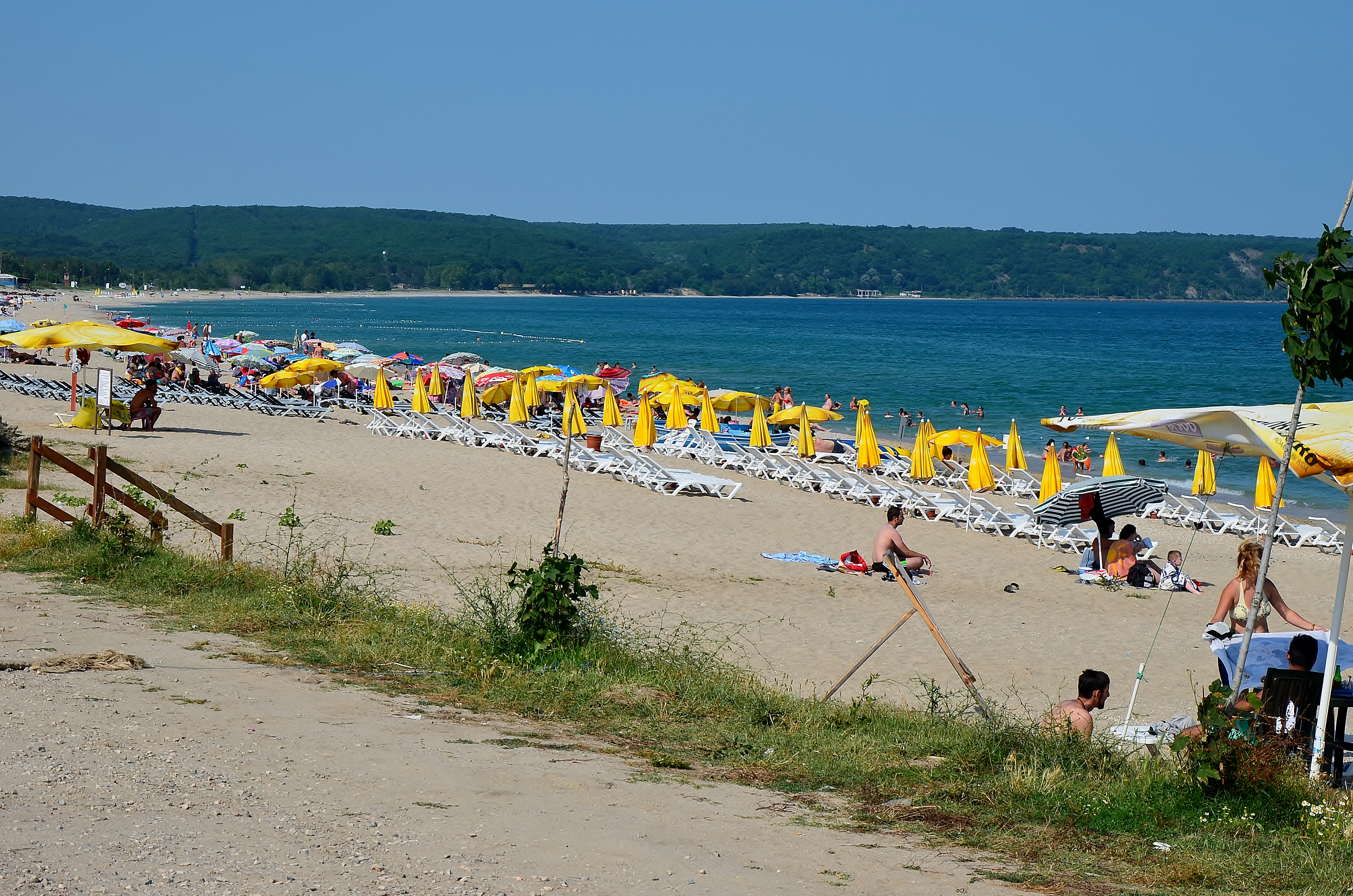 İğneada beach